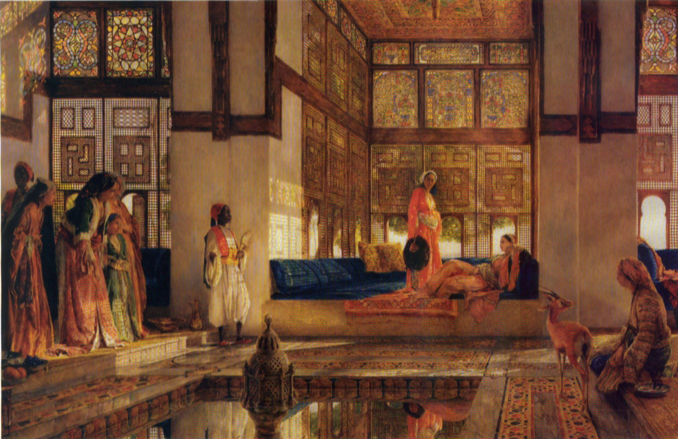 The Reception